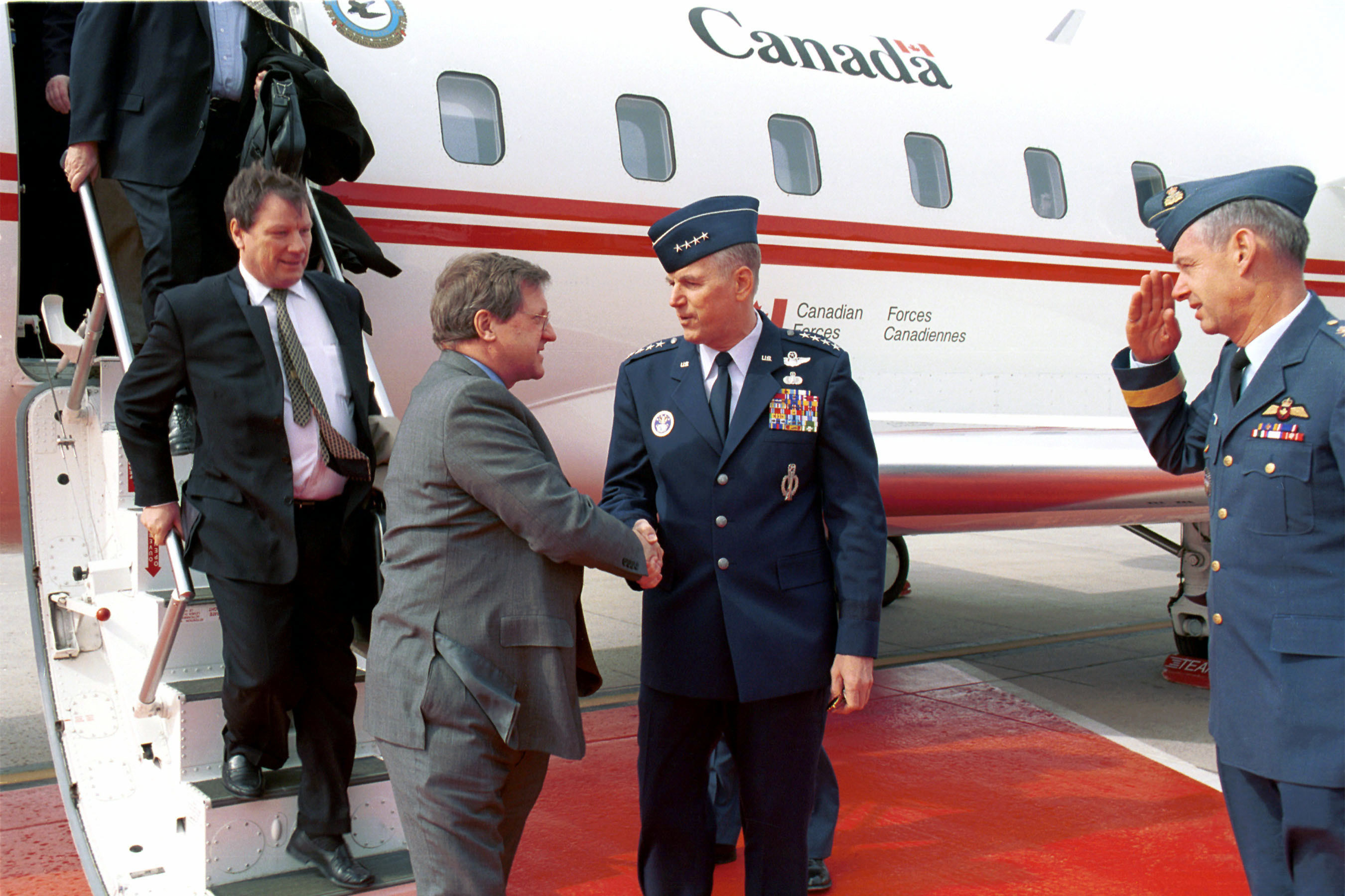 Canadian Minister of Foreign Affairs, Mr. Lloyd Axworthy (left), is greeted by US Air Force General Richard Myers (2nd from right), Commander in Chief, North American Aerospace Defense Command, and Canadian Forces Lieutenant General George E. C. Macdonald at Peterson Air Force Base, Colorado, on March 11th, 1999.